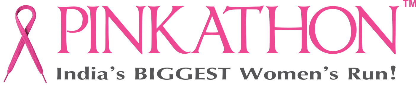 Pinkathon Logo